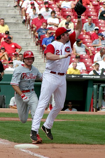 Baseball, First baseman, Sean Casey, 2004, by Rick Dikeman.